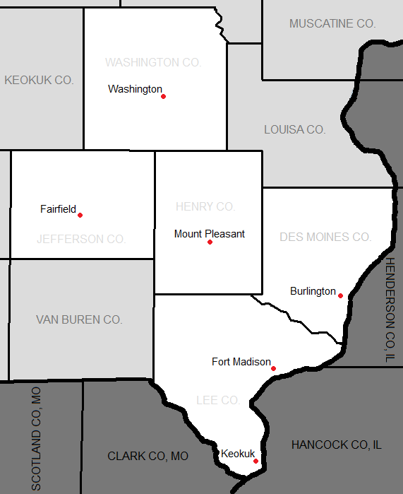 Map showing the locations of current Southeast Conference members.